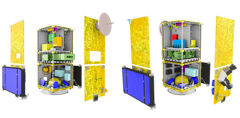 Amazonia 1 assembled with different modules